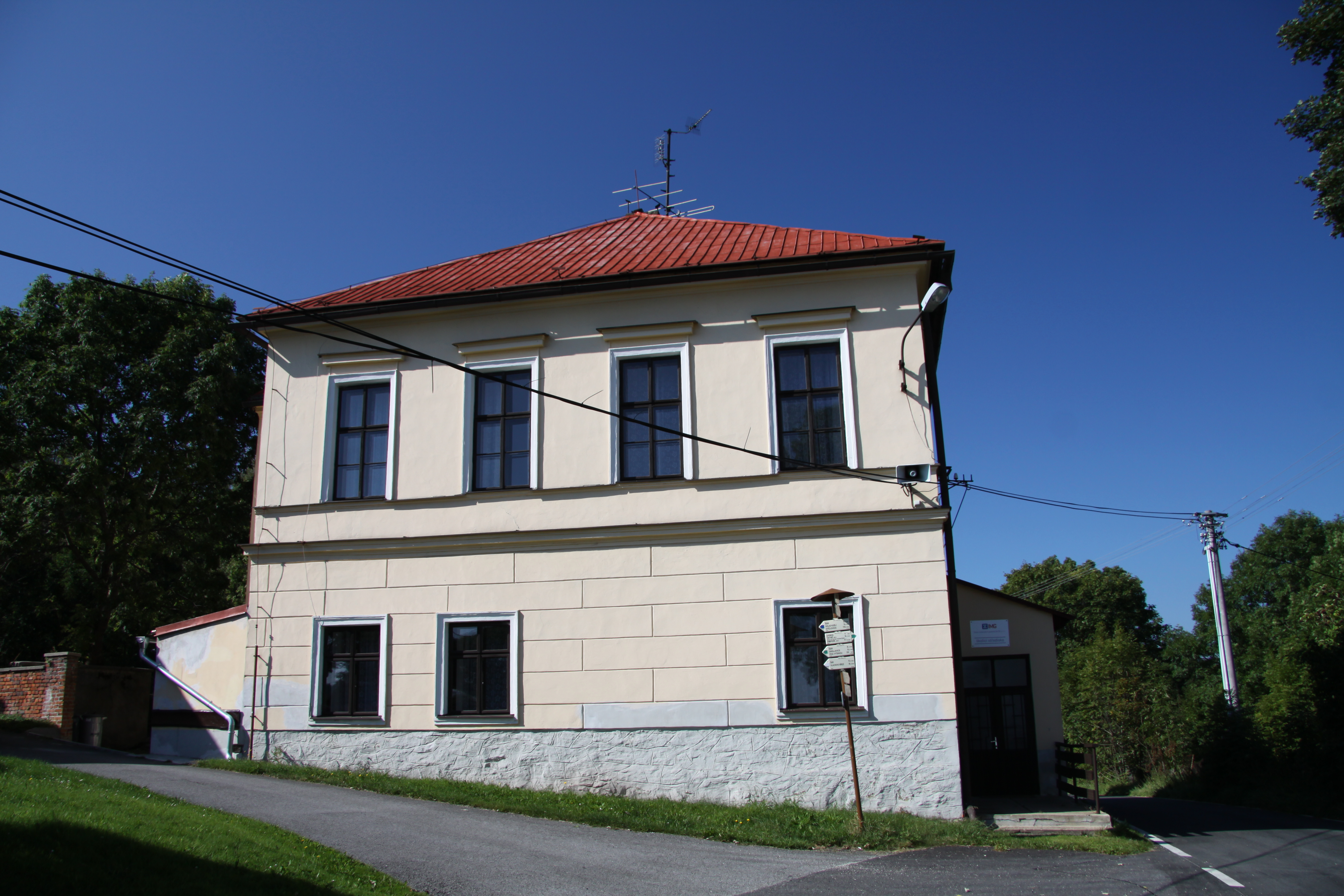 Lštění, part of Radhostice municipality, Prachatice District, Czech Republic